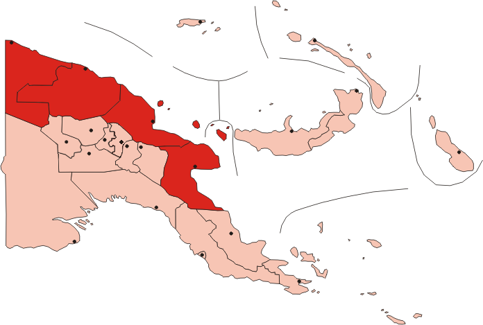 Locator map of Momase Region of Papua New Guinea